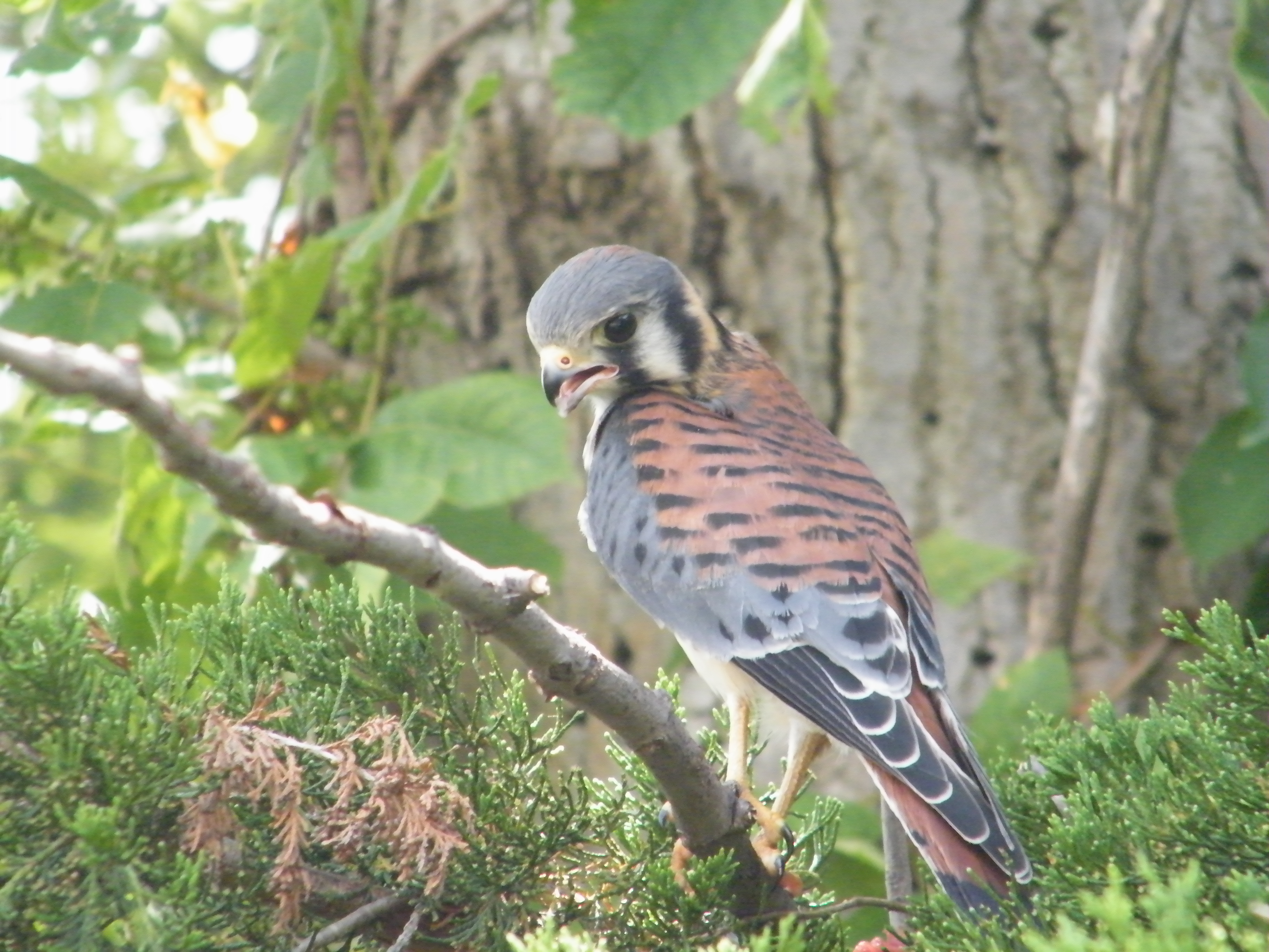 American kestrel in Central Illinois